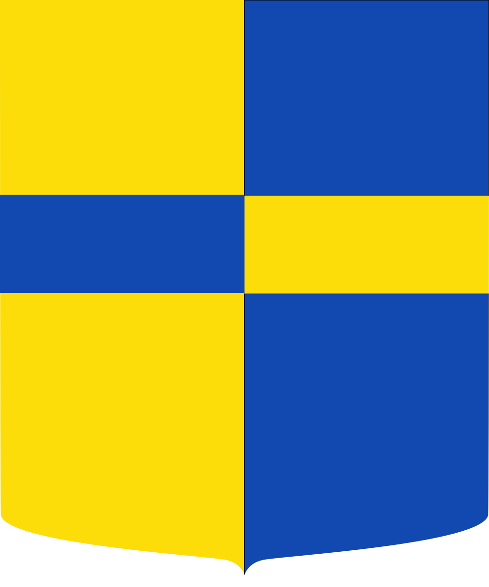 coat arms Muglia family